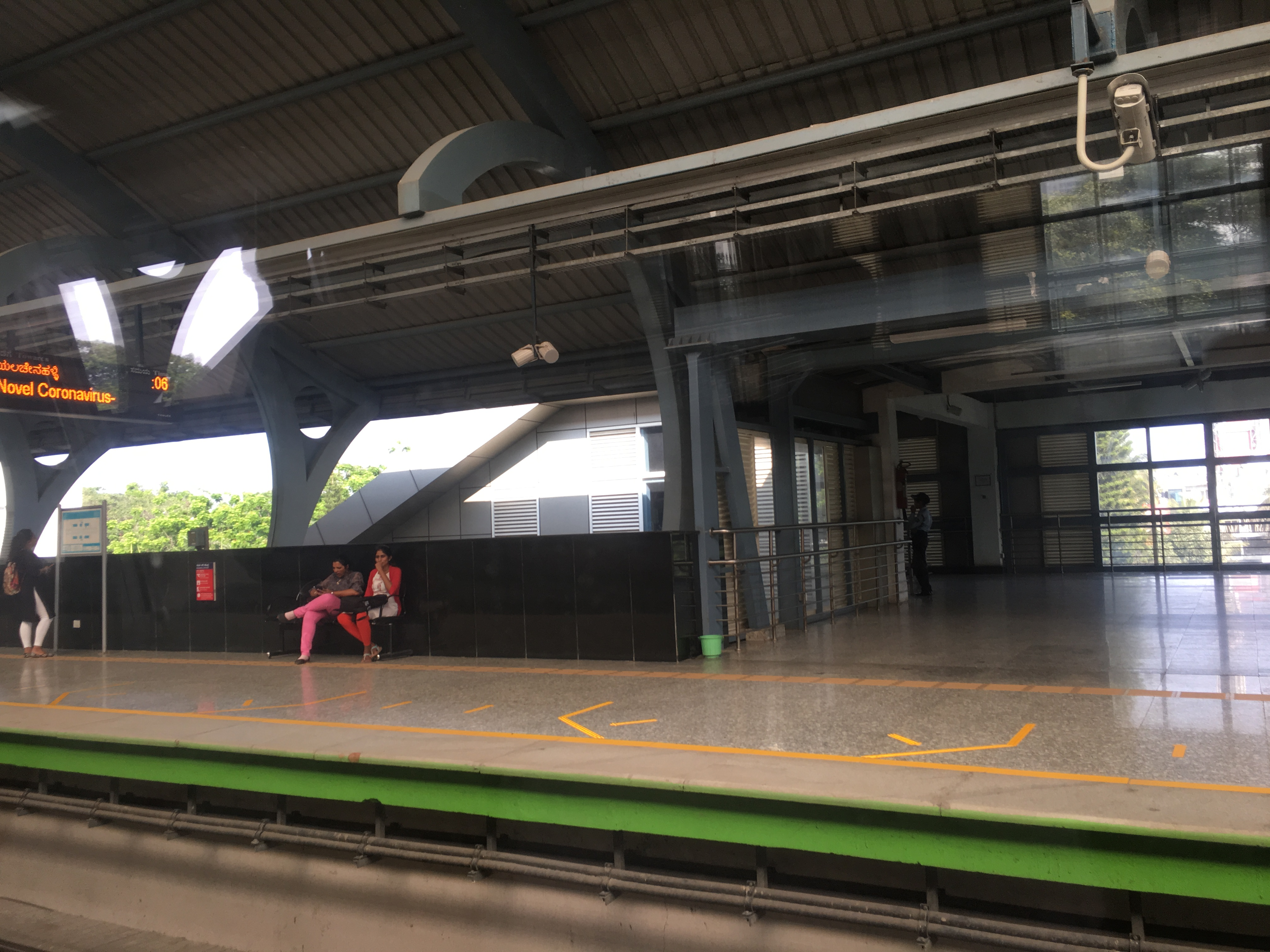 Jayanagar metro station